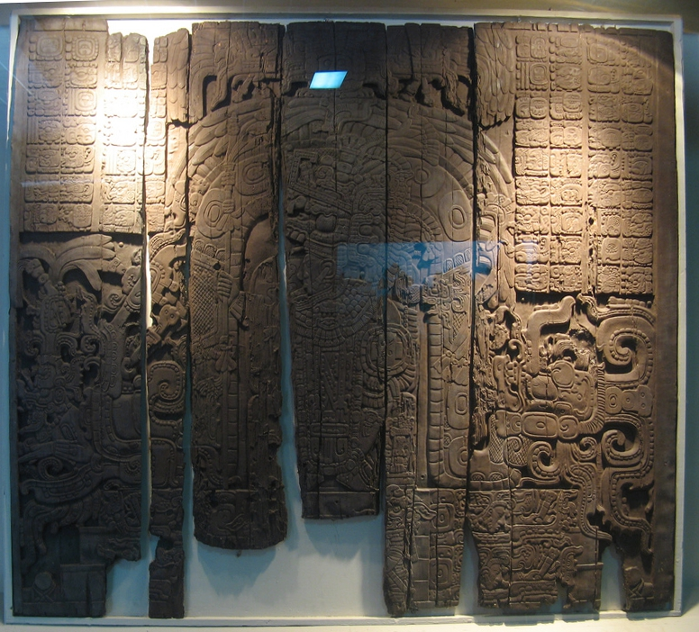 Maya site of Tikal, Petén, guatemala. Lintel 3 from temple IV. Sapodilla wood. King Yik'in Chan K'awiil (AD 743)